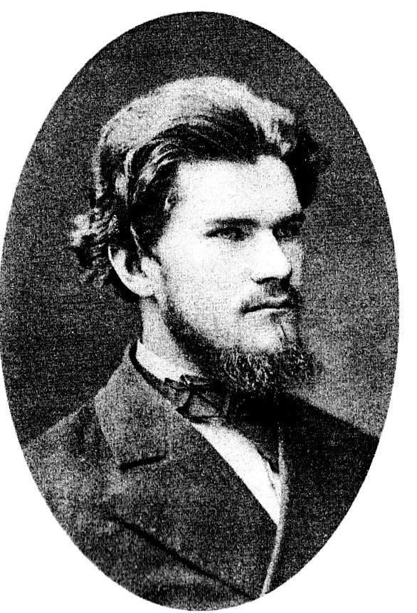 N. P. Starodvorsky, an accomplice of Sergey Degayev